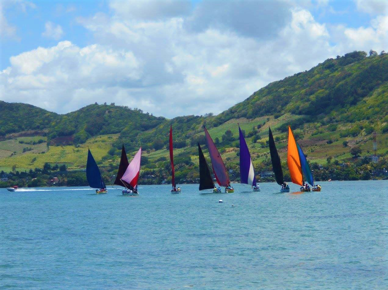 Sailboats in the village of Grand River South East in Mauritius getting to the landing area while a speedboat passes at their back. This is an image with the theme "Africa on the Move or Transport" from: Mauritius